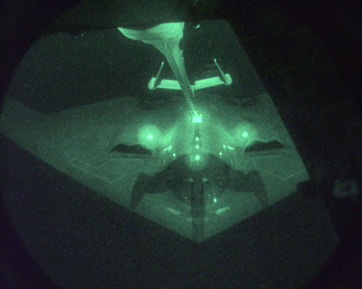 FILE PHOTO -- A B-2 Spirit bomber refuels from a KC-10 Extender after completing a mission in support of NATO Operation Allied Force. (U.S. Air Force photo by Staff Sgt. Ken Bergmann)